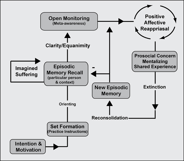 Mindfulness process model. Ethical-enhancement (EE) practice. Intention is formed along with motivation to practice before an executive “set” is created within the working memory system in order to implement and maintain practice instructions. Focused attentional networks are recruited for orienting toward sustained episodic memory recall involving mentalizing and shared experience. OM practice is described to supplement EE practice facilitating awareness of any modality of experience that arises. The processes are proposed to be the same across ethical styles of practice that require imagined suffering or a particular declarative memory [of someone or something]. Mentalizing one's own or others' suffering continues recurrently as part of sustained episodic memory recall. With clarity and equanimity for affective reactivity, OM practice allows the practitioner to remain mindfully aware of difficult emotions while the declarative (episodic) memory is positively reappraised. Negative associations are extinguished and reconsolidated into more adaptive or positive memories using prosocial/empathic concern for the object of meditation. Continuous reappraisal along with prosocial concern is thought to enhance exposure, extinction, and reconsolidation processes such that new episodic memories are laid down and inhibit older maladaptive forms of the memory.